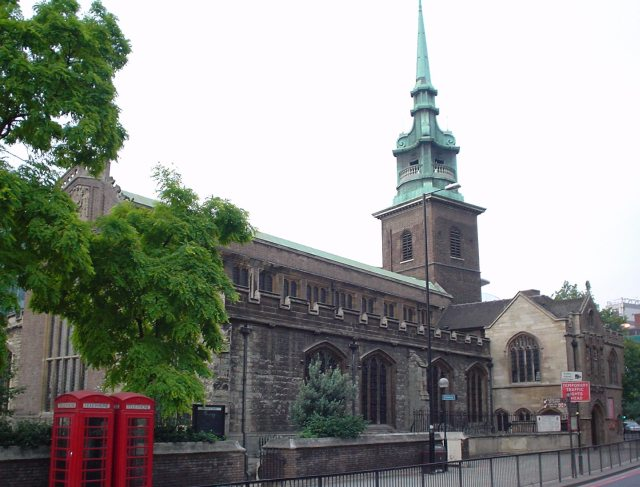 All Hallows-by-the-Tower, the oldest church in London